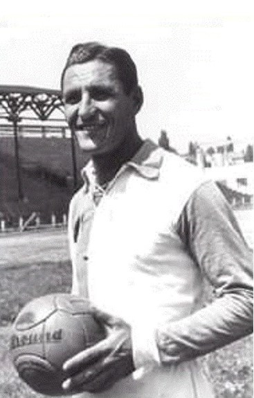 Rajko Mitić (Serbian Cyrillic: Рајко Митић; November 19, 1922 - March 29, 2008), Serbian football player and coach.